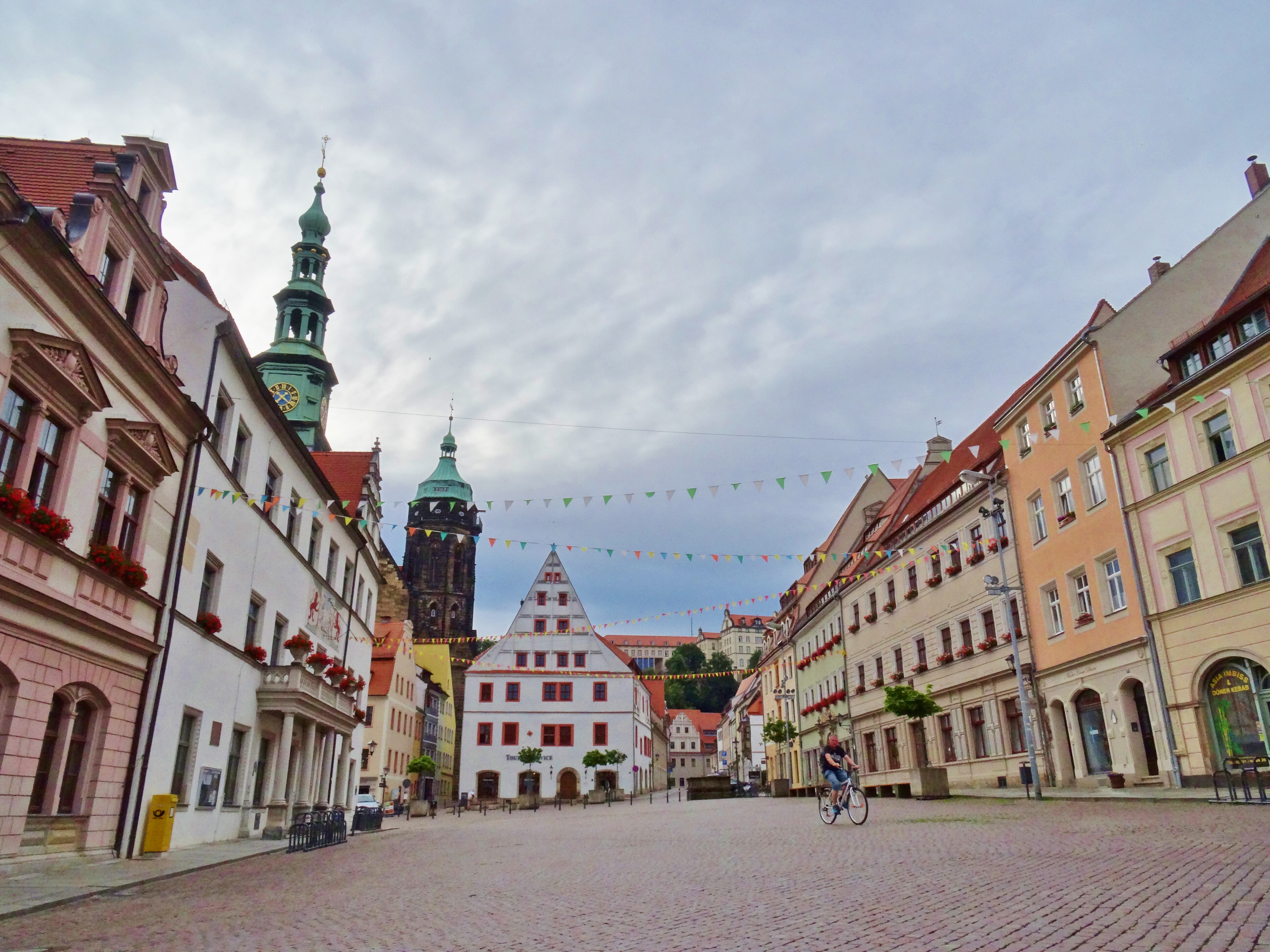 Am Markt, Pirna